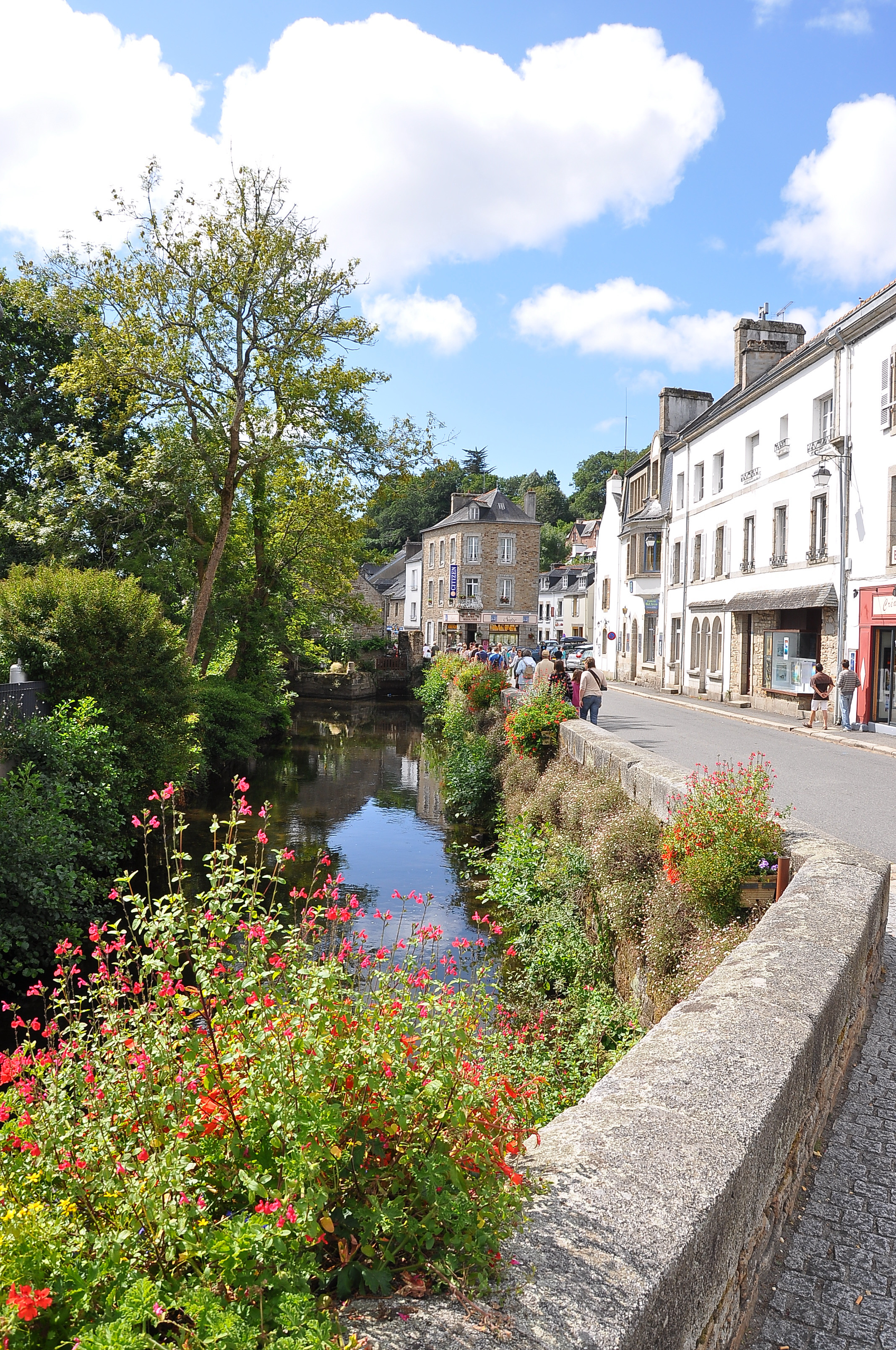 Aven river at Pont-Aven in Finistère department of France.